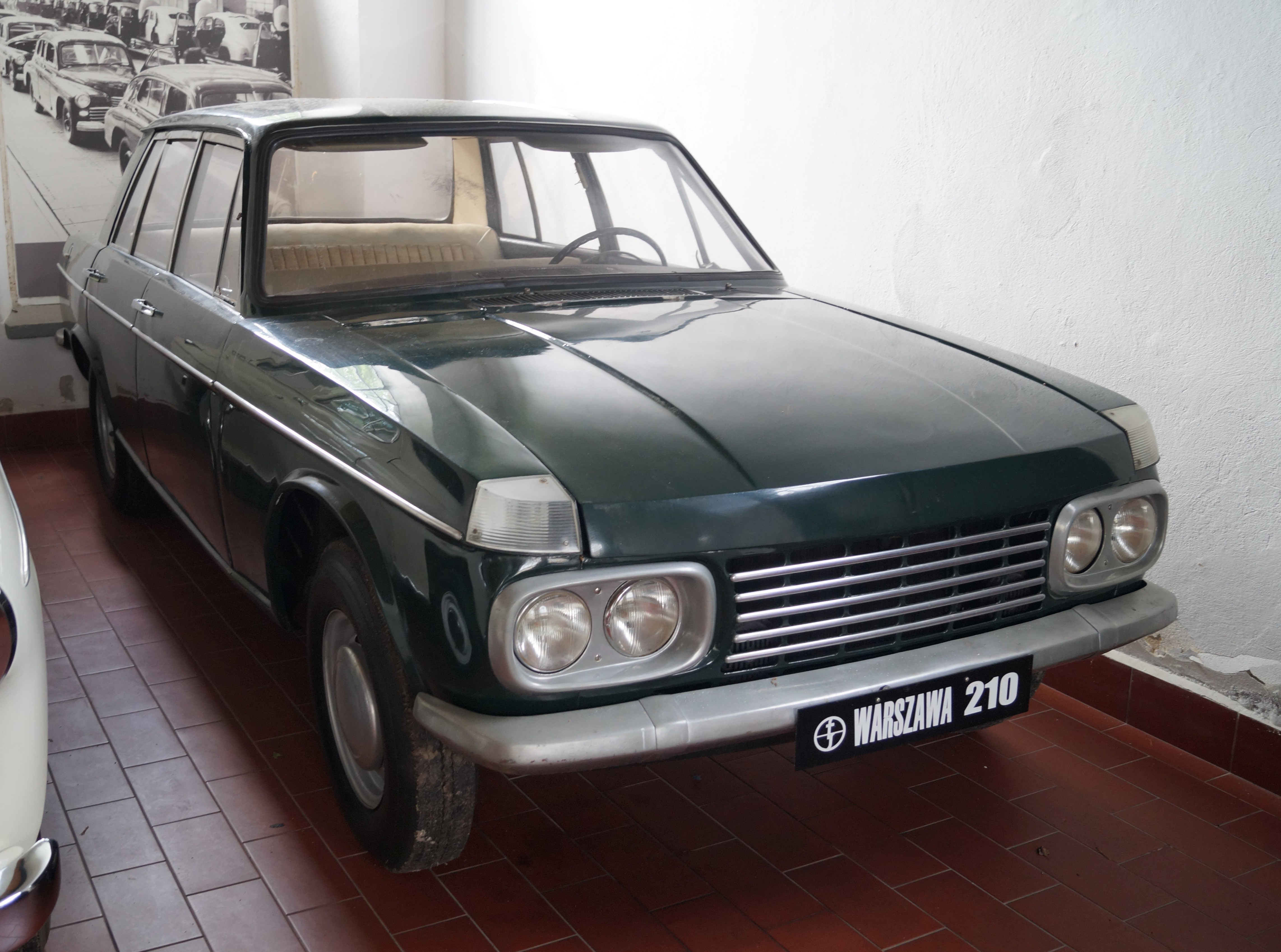 The making of this document was supported by Wikimedia Polska Association, within Wikigrant no. WG 2016-18. English | polski | +/− FSO Warszawa 210 w Muzeum w Chlewiskach